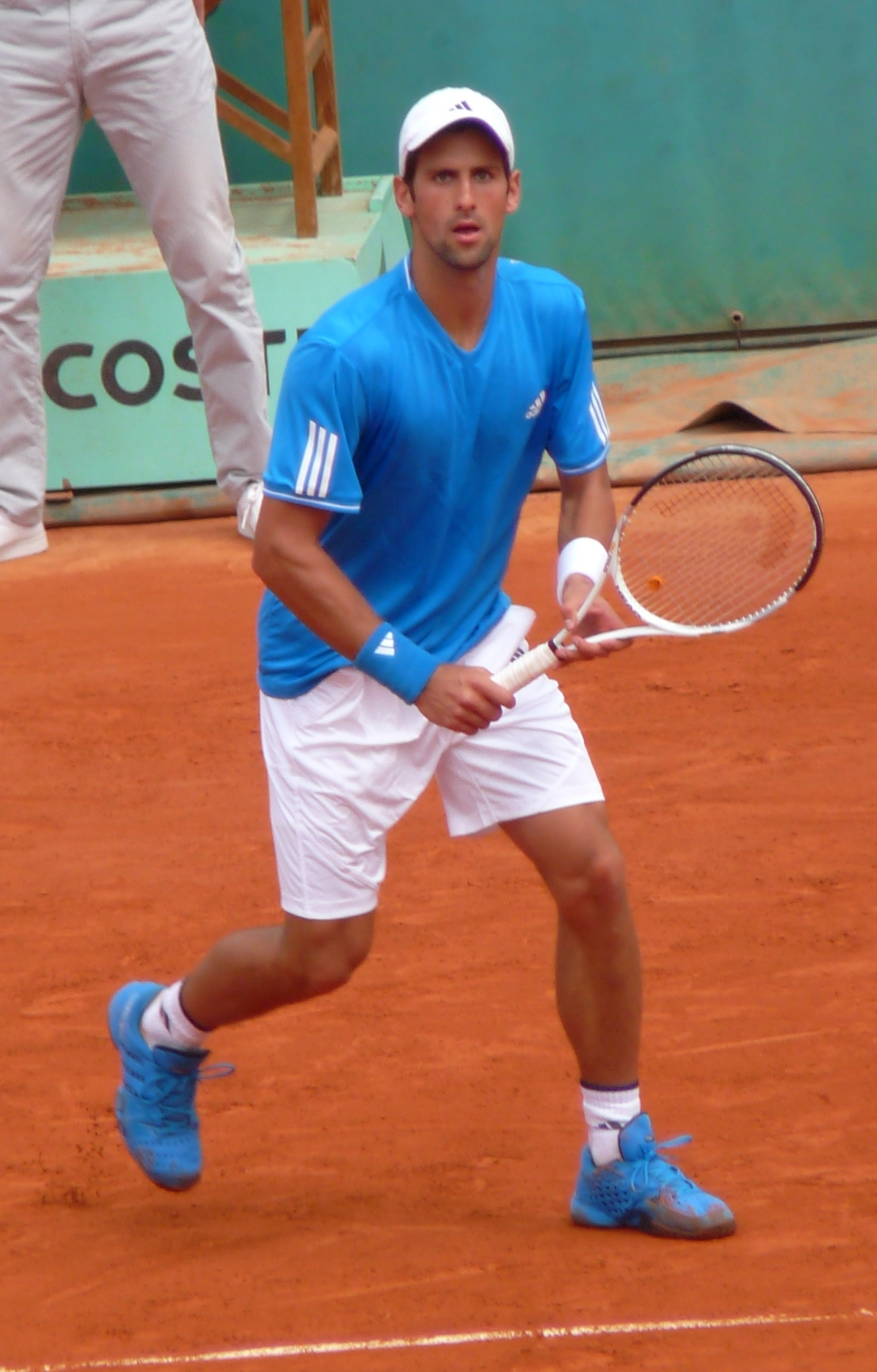 Novak Đoković against Sergiy Stakhovsky in the 2009 French Open second round